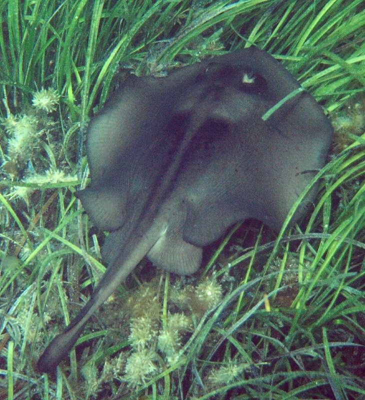 Striped stingaree (Trygonoptera ovalis) off Western Australia.